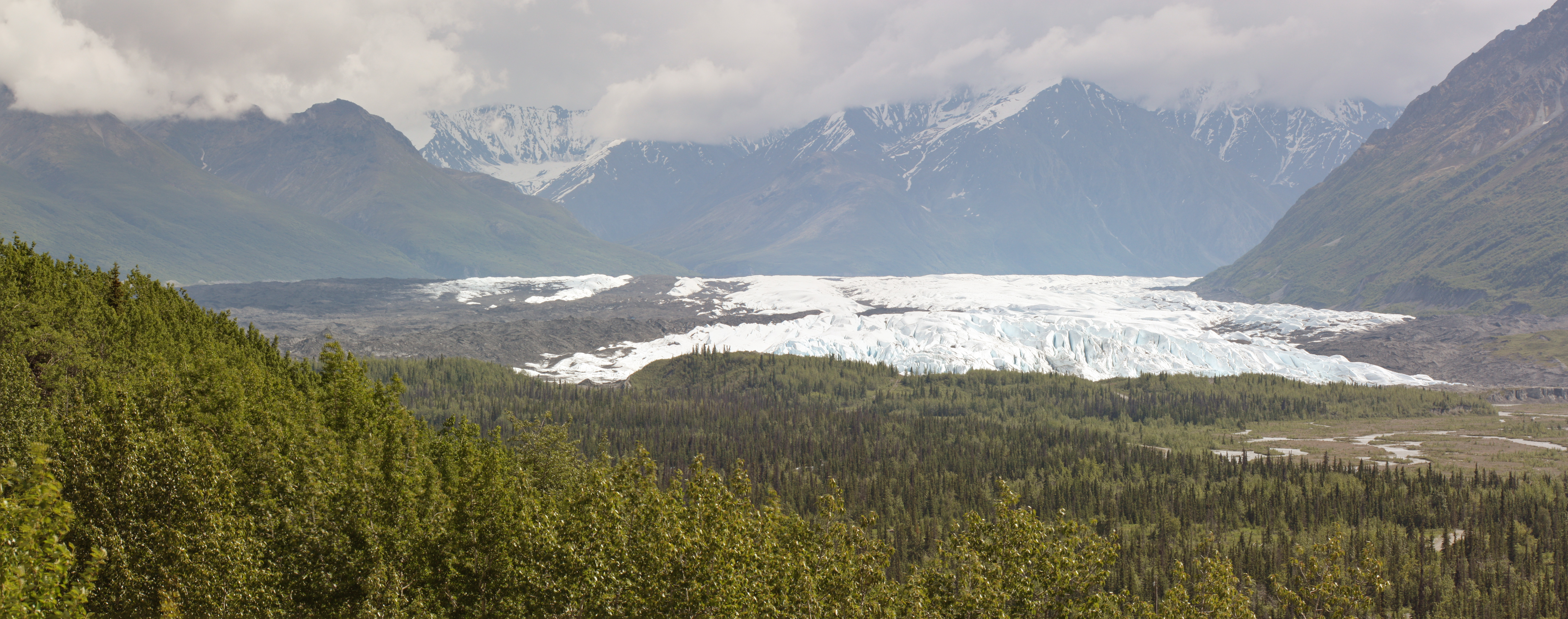 Matanuska Glacier source of the Matanuska River; stitched panorama from other versions This image was created with Hugin